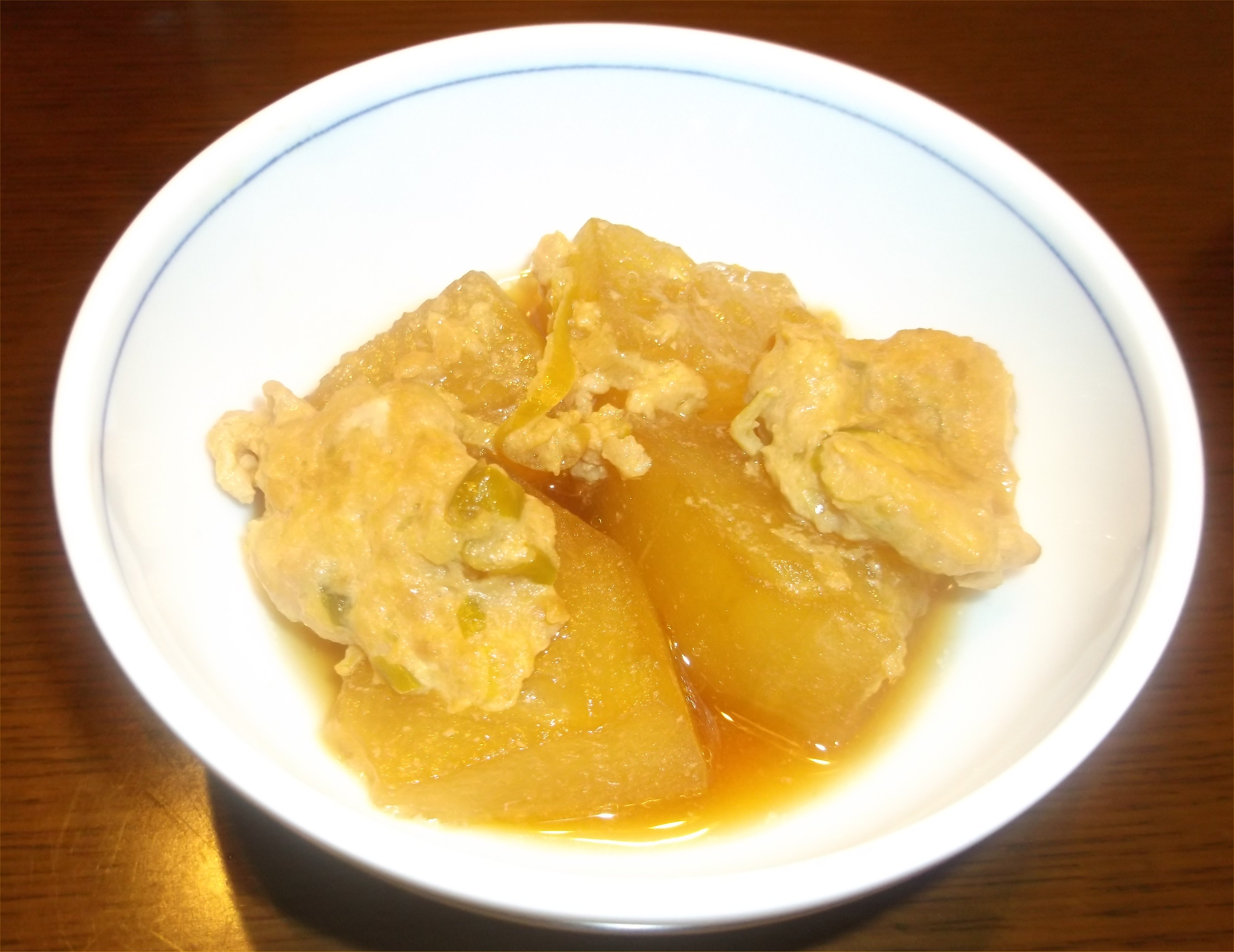 A photo of nimono of a winter melon and ground chicken (a Japanese cuisine)